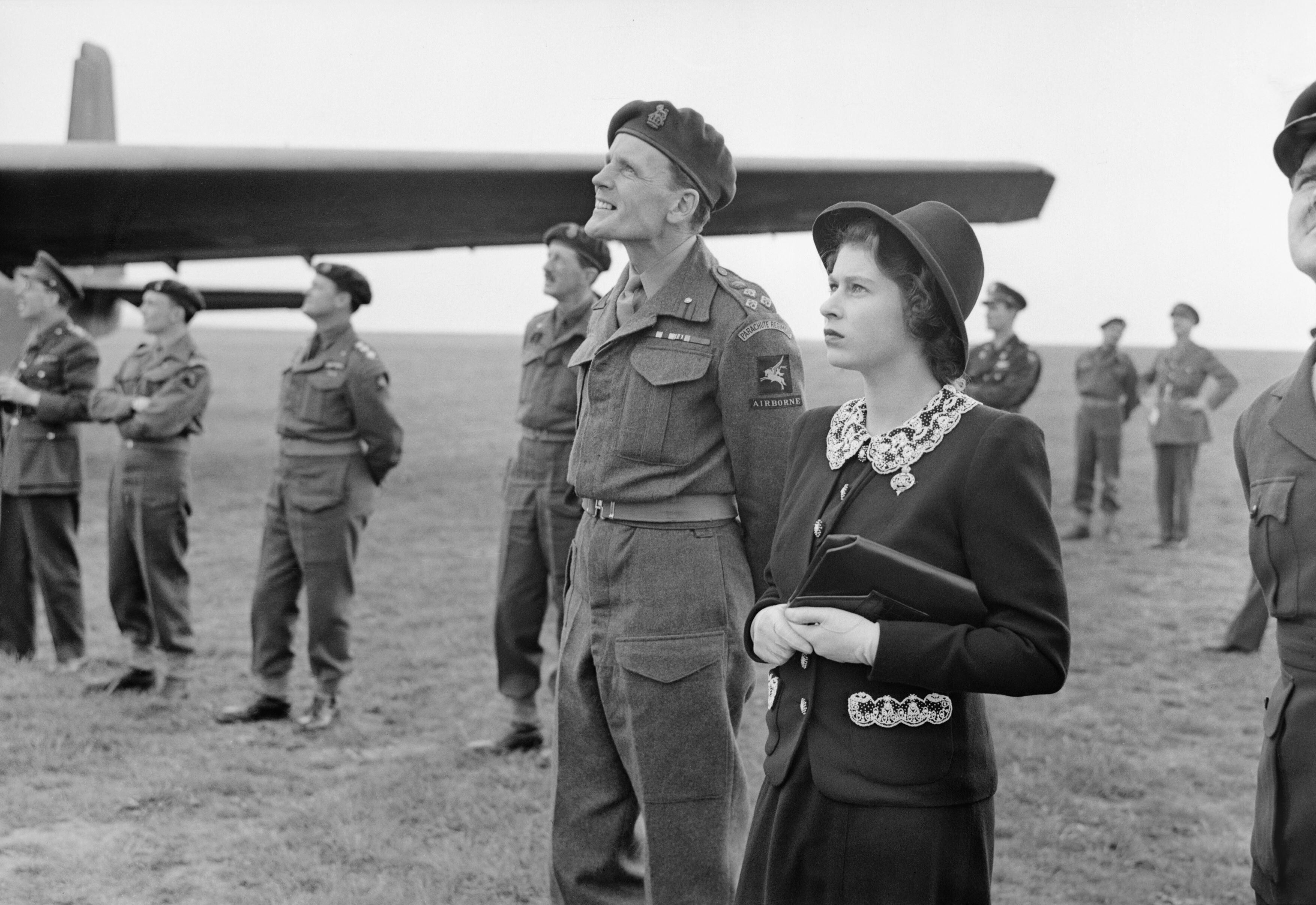 Princess Elizabeth Visiting Airborne Troops, May 1944 HRH Princess Elizabeth watching parachutists dropping during a visit to airborne forces in England in the run-up to D-Day.